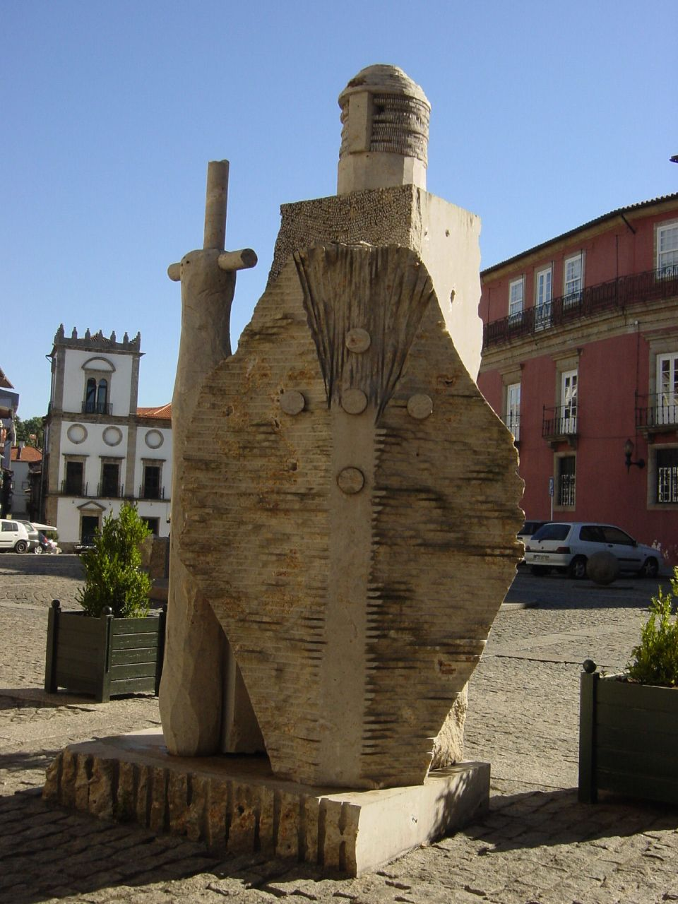 Sculpture of D. Afonso Henriques by João Cutileiro.